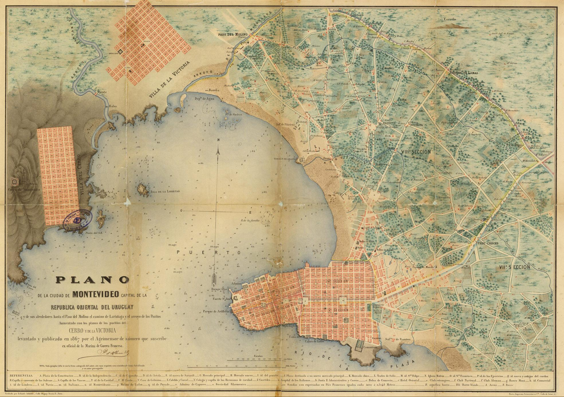 Map of the City of Montevideo and old towns (today neighborhoods) of Villa del Cerro and Pueblo Victoria, disegned in 1867 by the French surveyor I. D'Albenne.